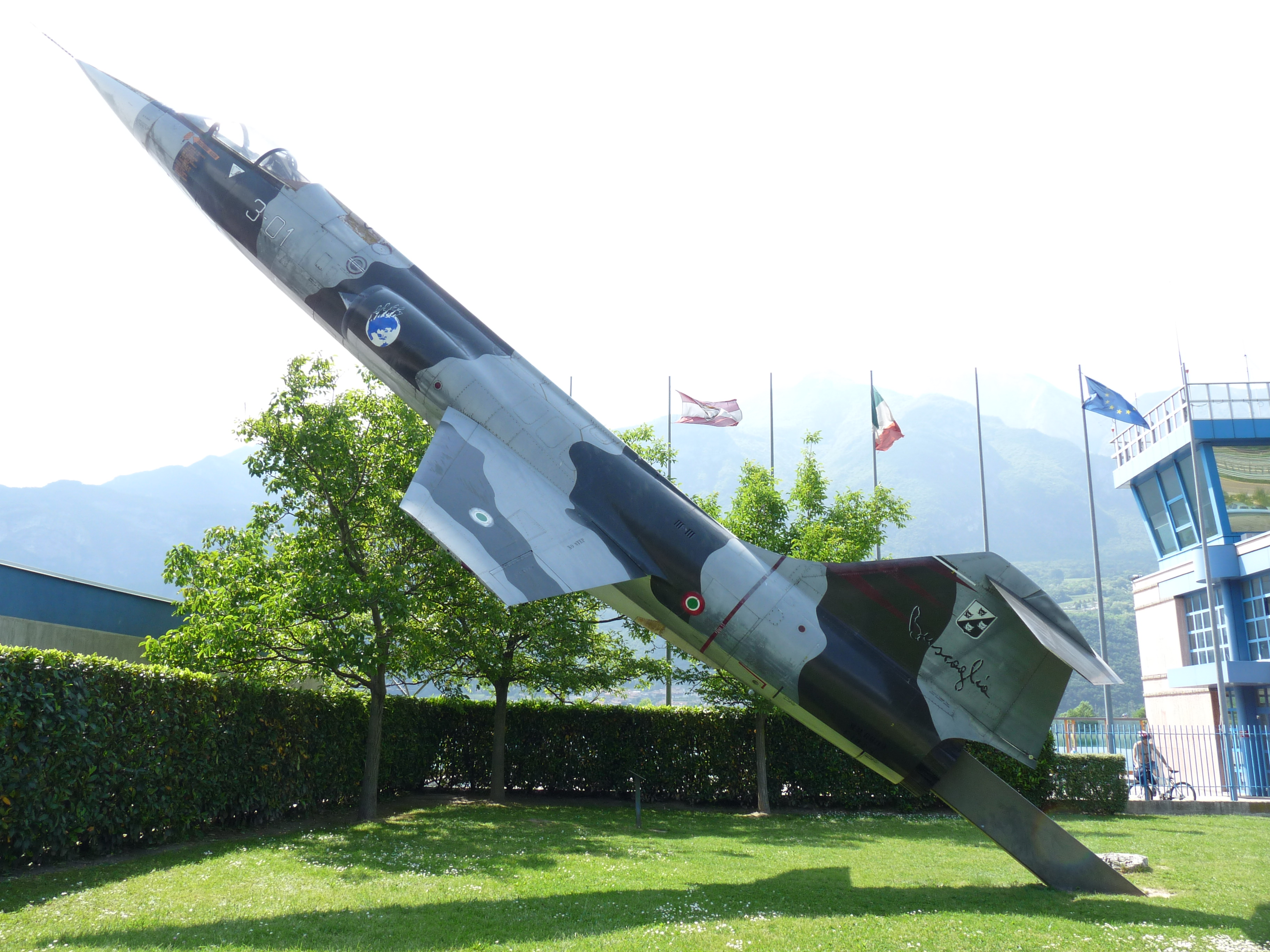 Trento (Italy): a Lockheed F-104G at the entrance of the Museum of Aeronautics Gianni Caproni. A nearby plaque says it is dedicated to the memory of eng. Licio Giorgieri